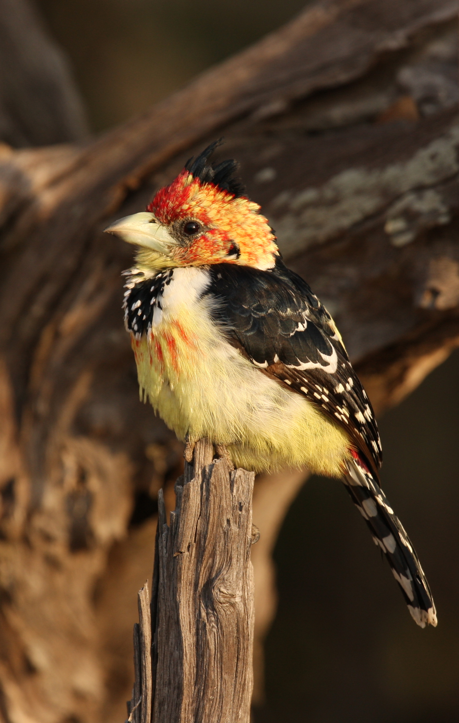 A Crested Barbet near Sand River Selous, Selous Game Reserve, Tanzania.